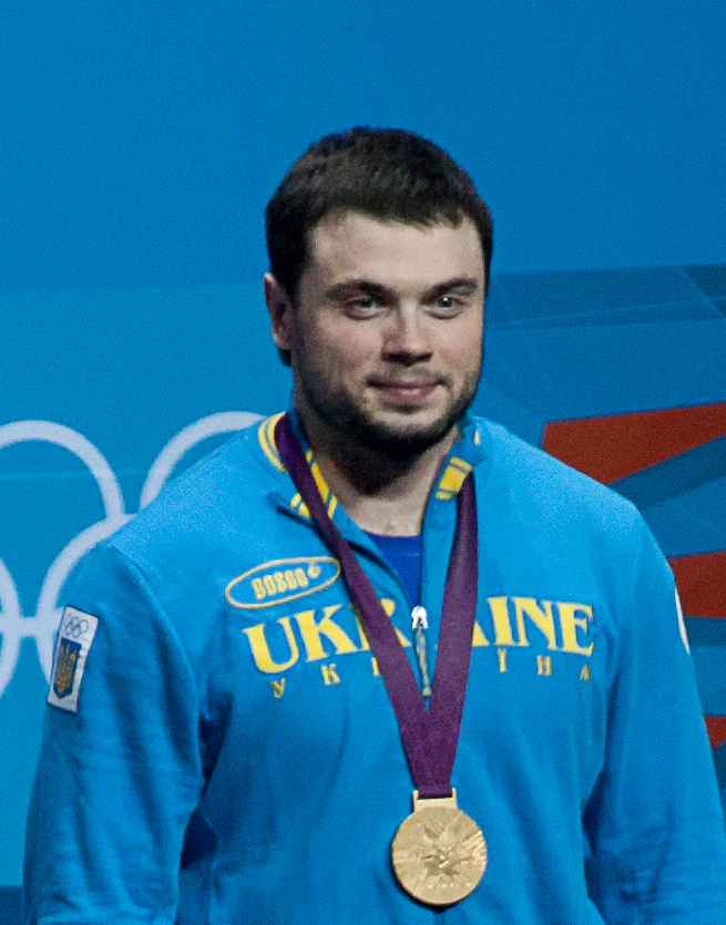 Oleksiy Torokhtiy portrait